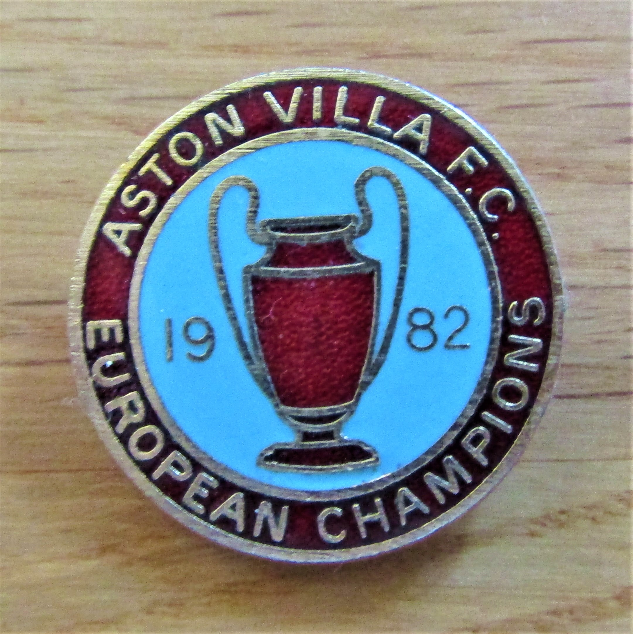 An enamel Aston Villa pin badge dedicated to the European Cup winning season in 1982.